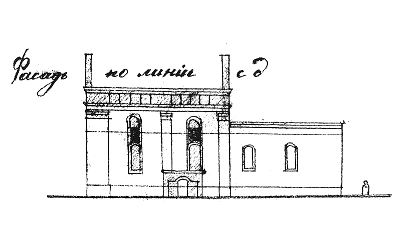 Brothers Hospitallers of St. John of God church